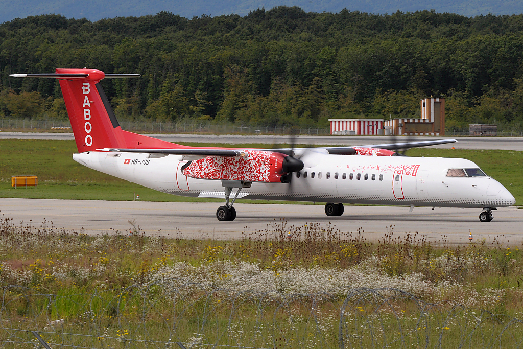 Baboo Bombardier Dash 8-400 in Geneva